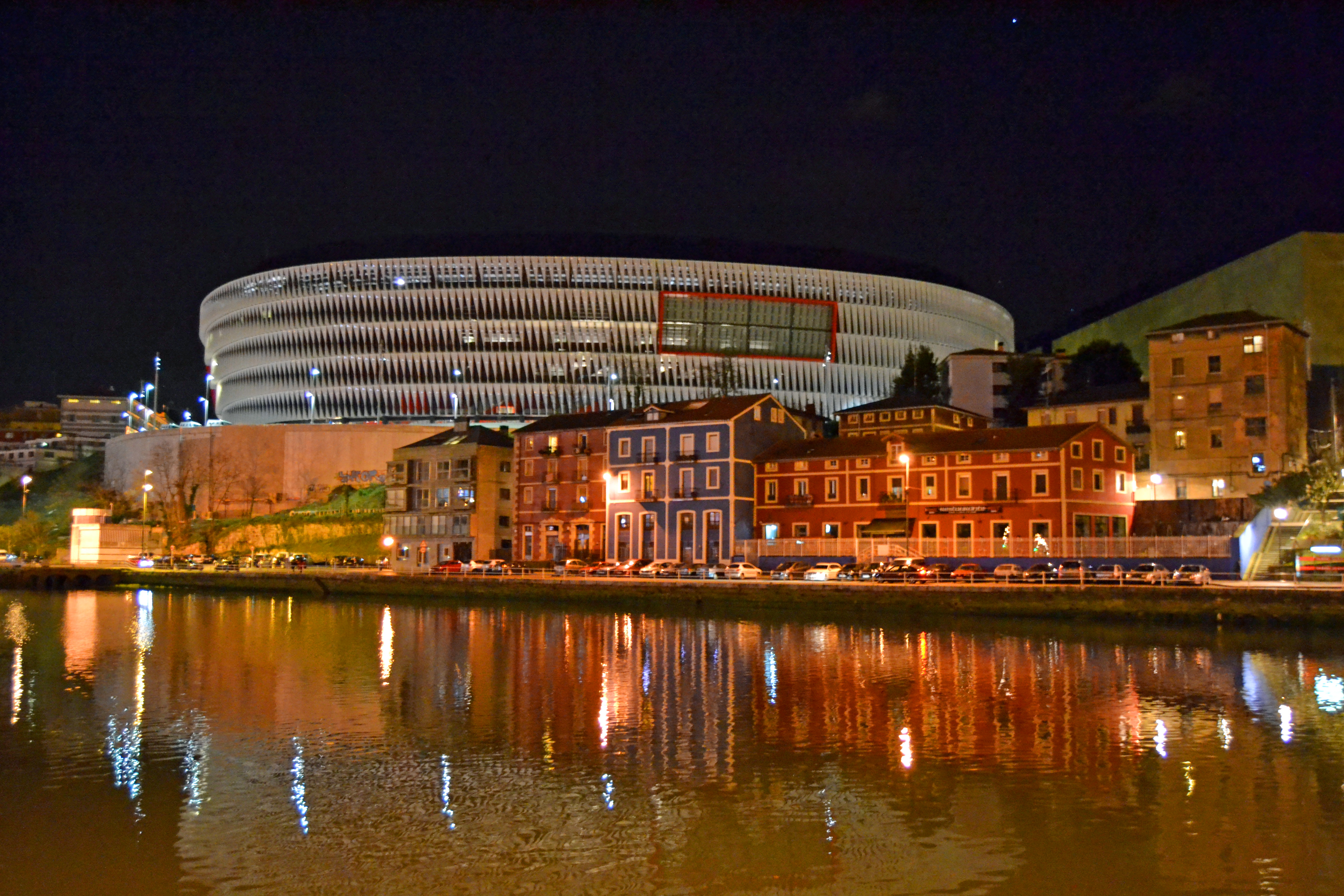 View of San Mames Stadium from Zorrotzaurre neighbourhood. Bilbao, Basque Country.